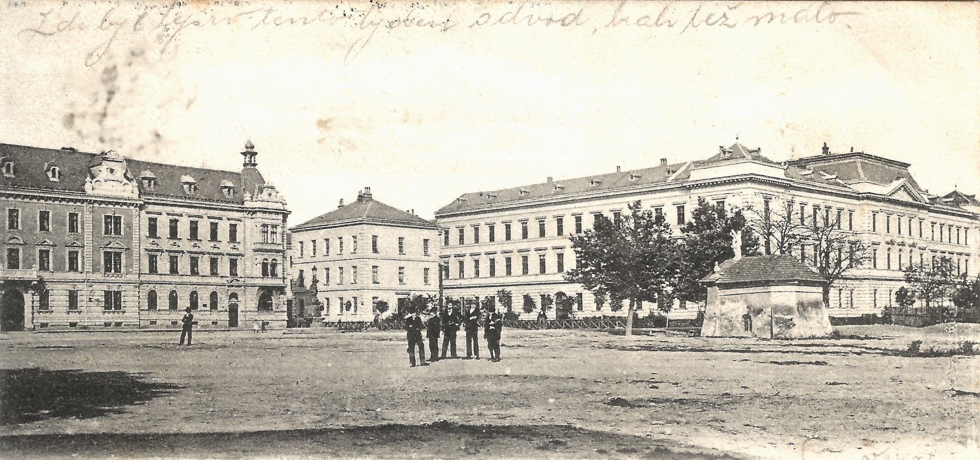 This is a photo I have scanned, cropped and manually enhanced from an old post card. It shows Palackého náměstí in Uherské Hradiště. The postcard (file) is from 1905. I waive any rights that may have arised from me scanning or processing the file (consider CC0 1.0).